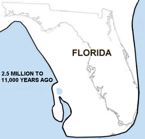 Graphic of Pleistocene Florida 2.5-11,000 years ago